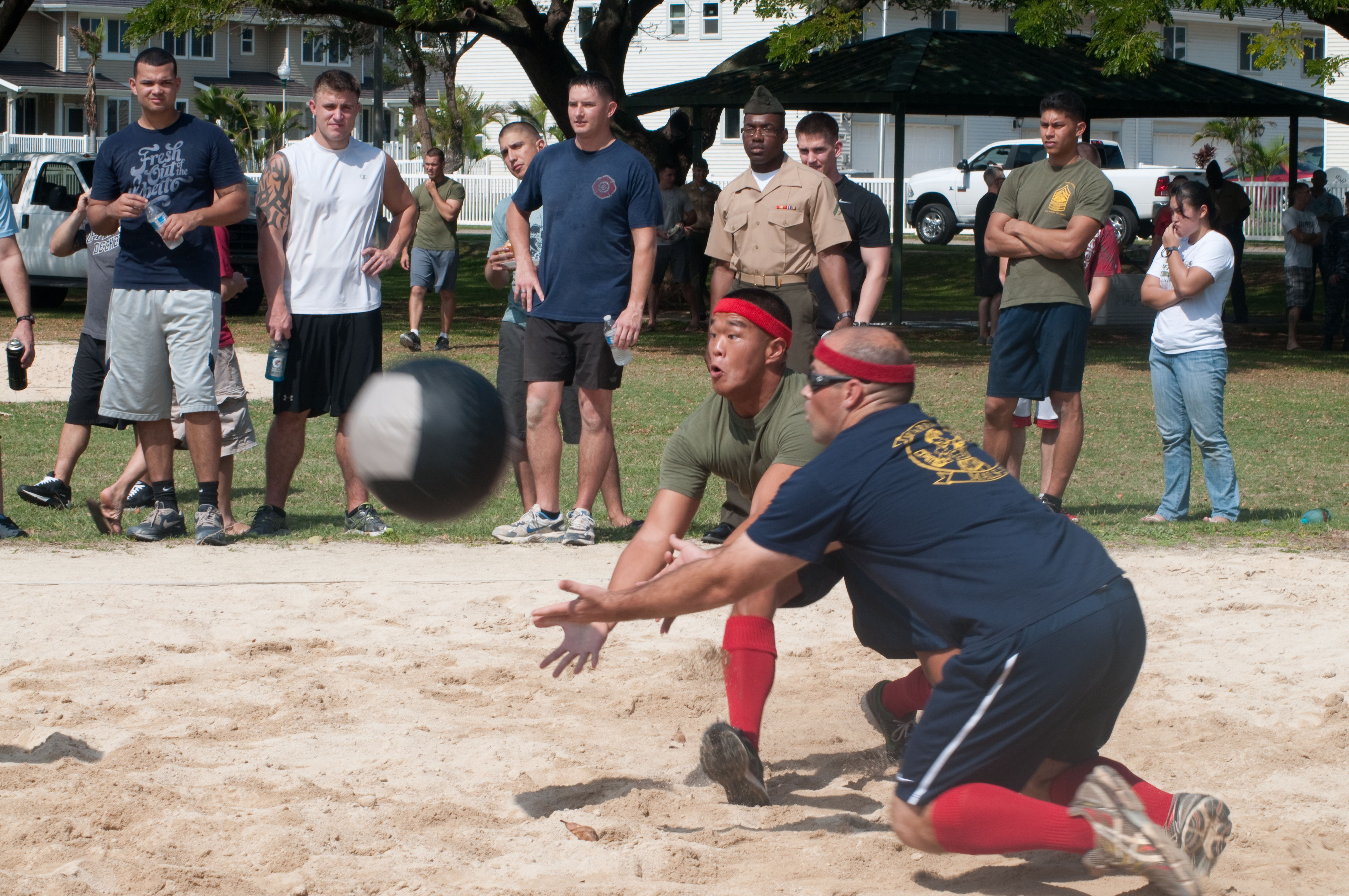 Red Socks players attempt to catch an eight-pound medicine ball during a Marine Aviation Logistics Squadron 24 Hooverball tournament game at Riseley Field, Jan. 25, 2013. Dozens of players were eliminated in the first leg of the tournament, with four teams making it to the second day of competition. The Red Socks, Panthers, Average Joes and Headquarters teams battled for first place. (Official Marine Corps photo by Christine Cabalo)